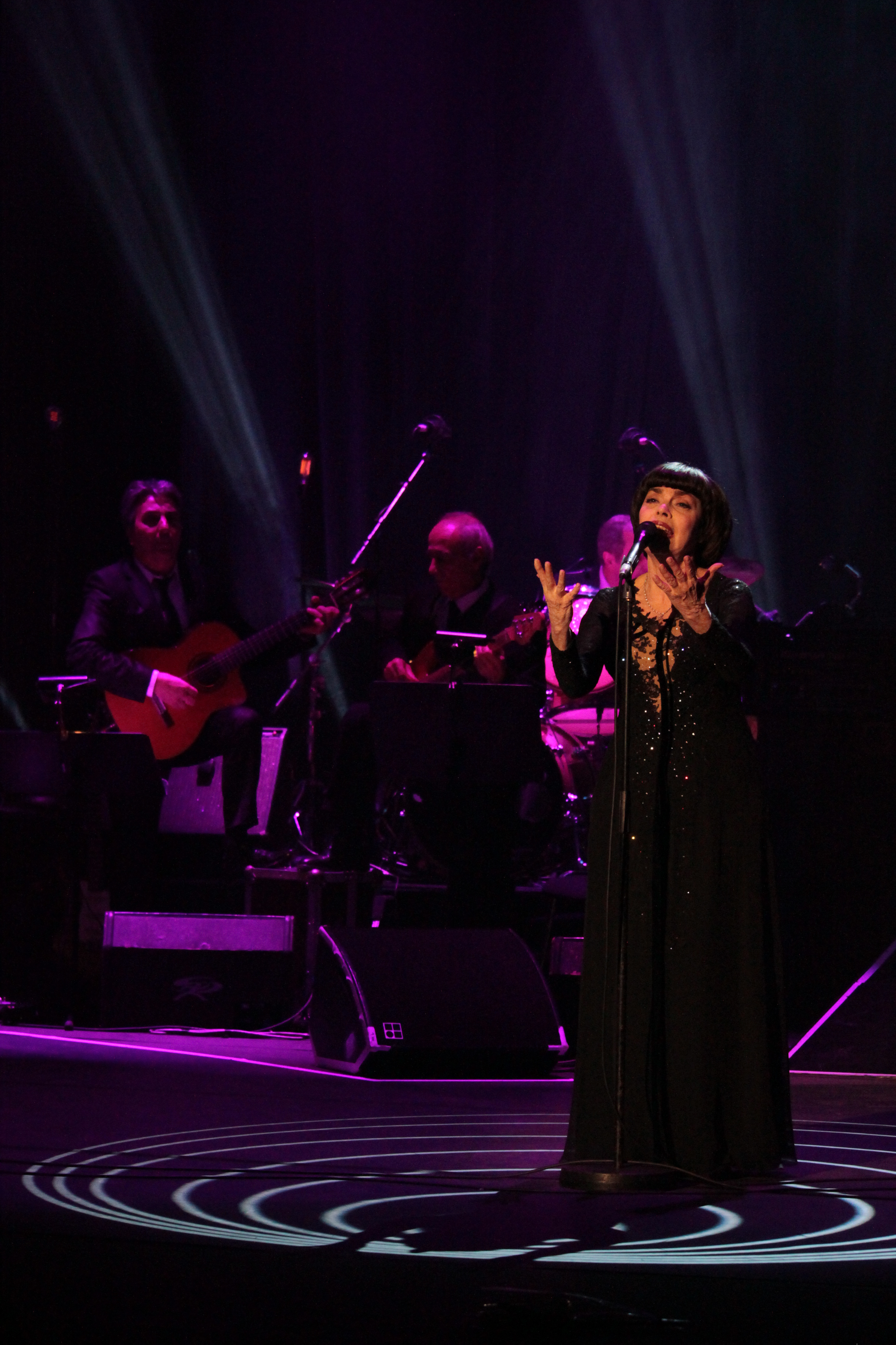 Mireille Mathieu on 2nd of March 2015 in Friedrichstadt-Palace Berlin